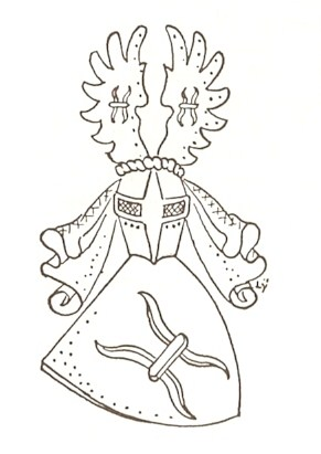 Coat of arms of the german family „von Hatzfeld“